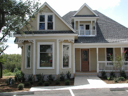 Twin of the Texas Chainsaw House from the same location